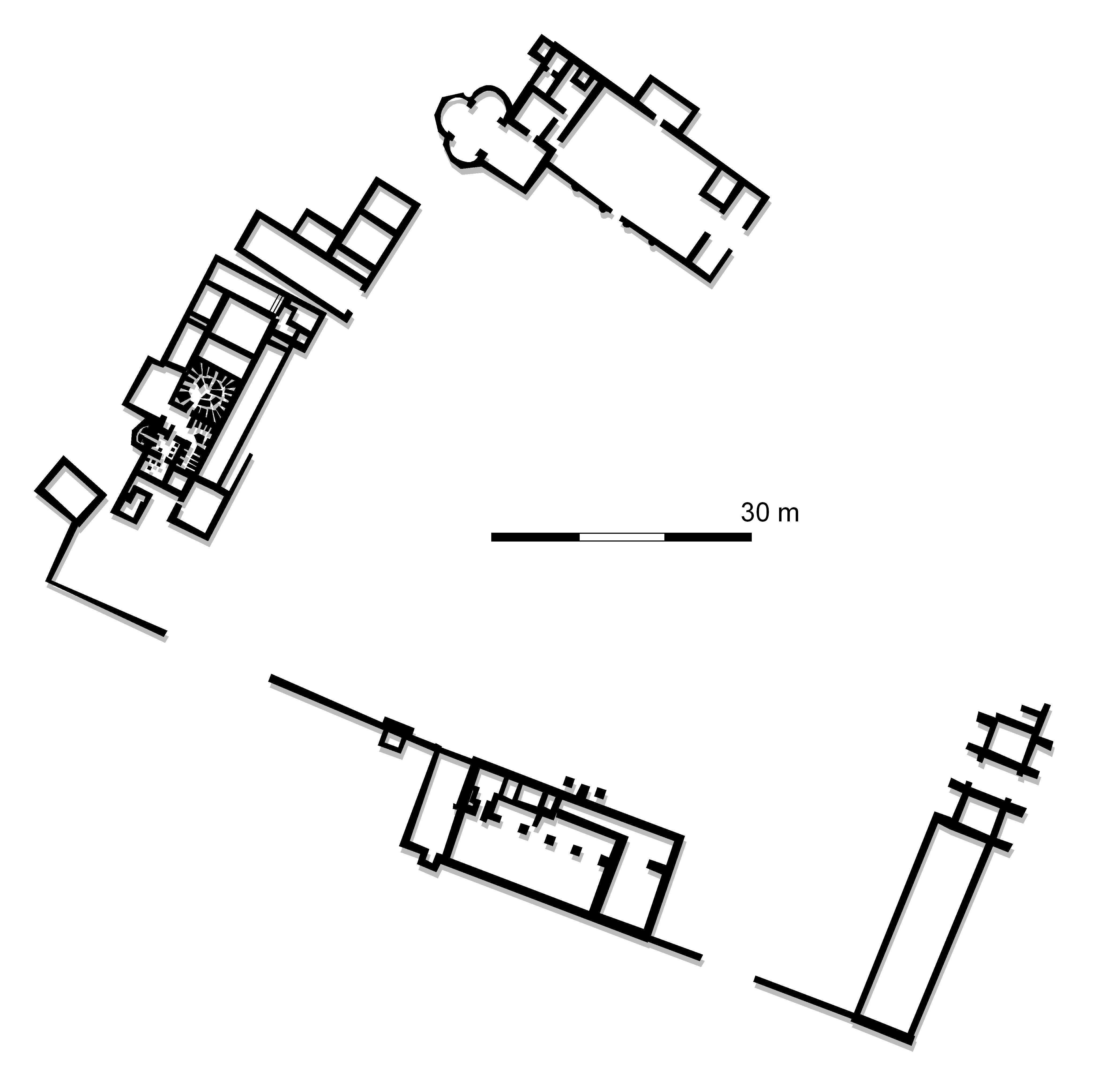 Roman villa, Littlecot, plan